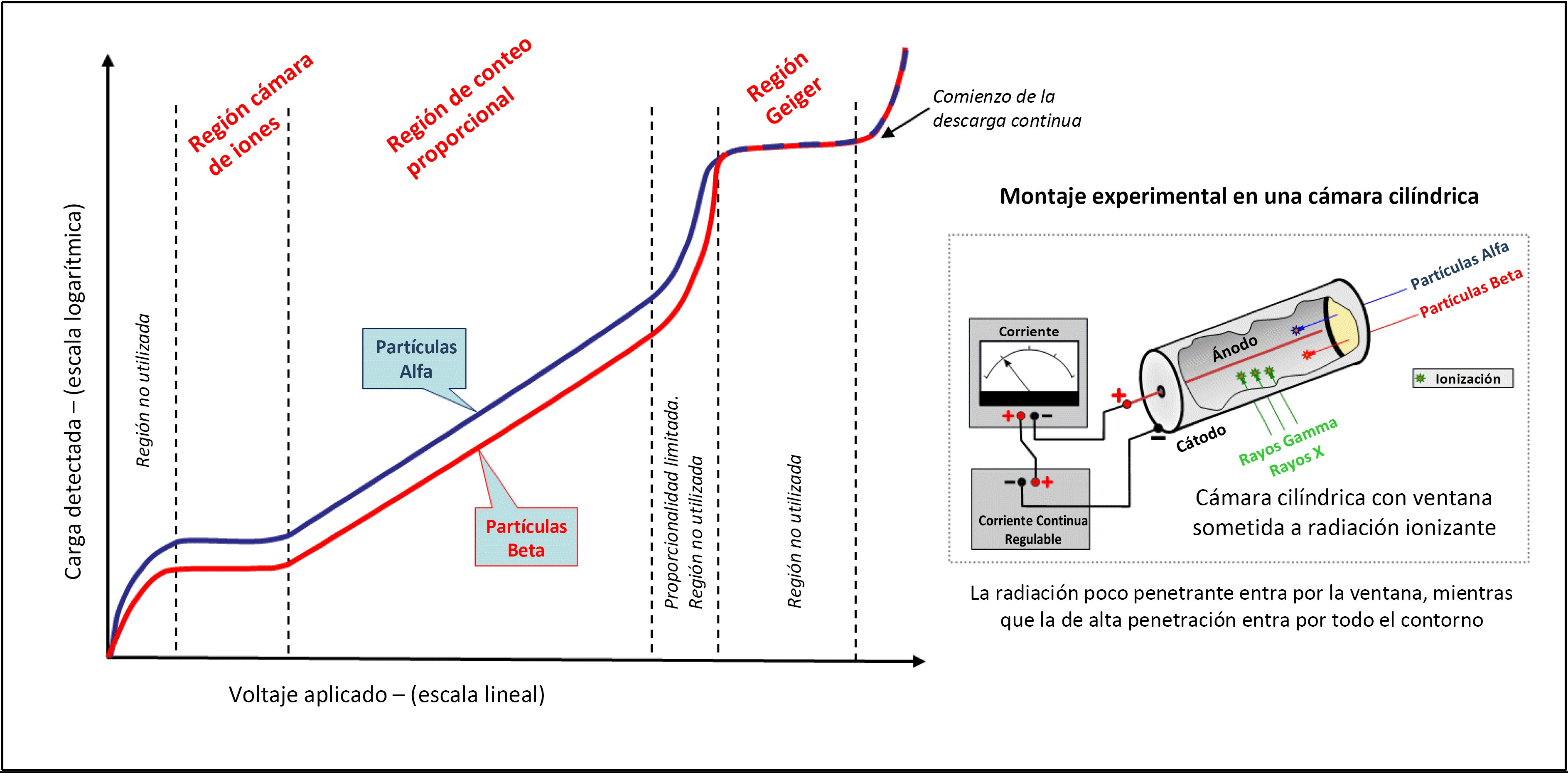 Plot of relative level of ion-pair current with increasing voltage applied between anode and cathode for a wire cylinder ionisation detection system with constant incident ionising radiation. This covers the practical areas of operation of the Geiger-Muller counter, the proportional counter and the ionisation chamber. Alpha particles are more ionising than beta particles, so more current is produced in the ion chamber region by alpha than beta, but the particles cannot be differentiated. More current is produced in the proportional counting region by alpha particles than beta, but by the nature of proportional counting it is possible to differentiate alpha and beta pulses. In the Geiger region, there is no differentiation of alpha and beta as any single ionisation event in the gas results in the same current output. Note that gamma and X-ray photons result in the same plot shape; current also being dependent on radiation energy